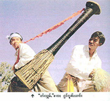 Siam and their long drum.